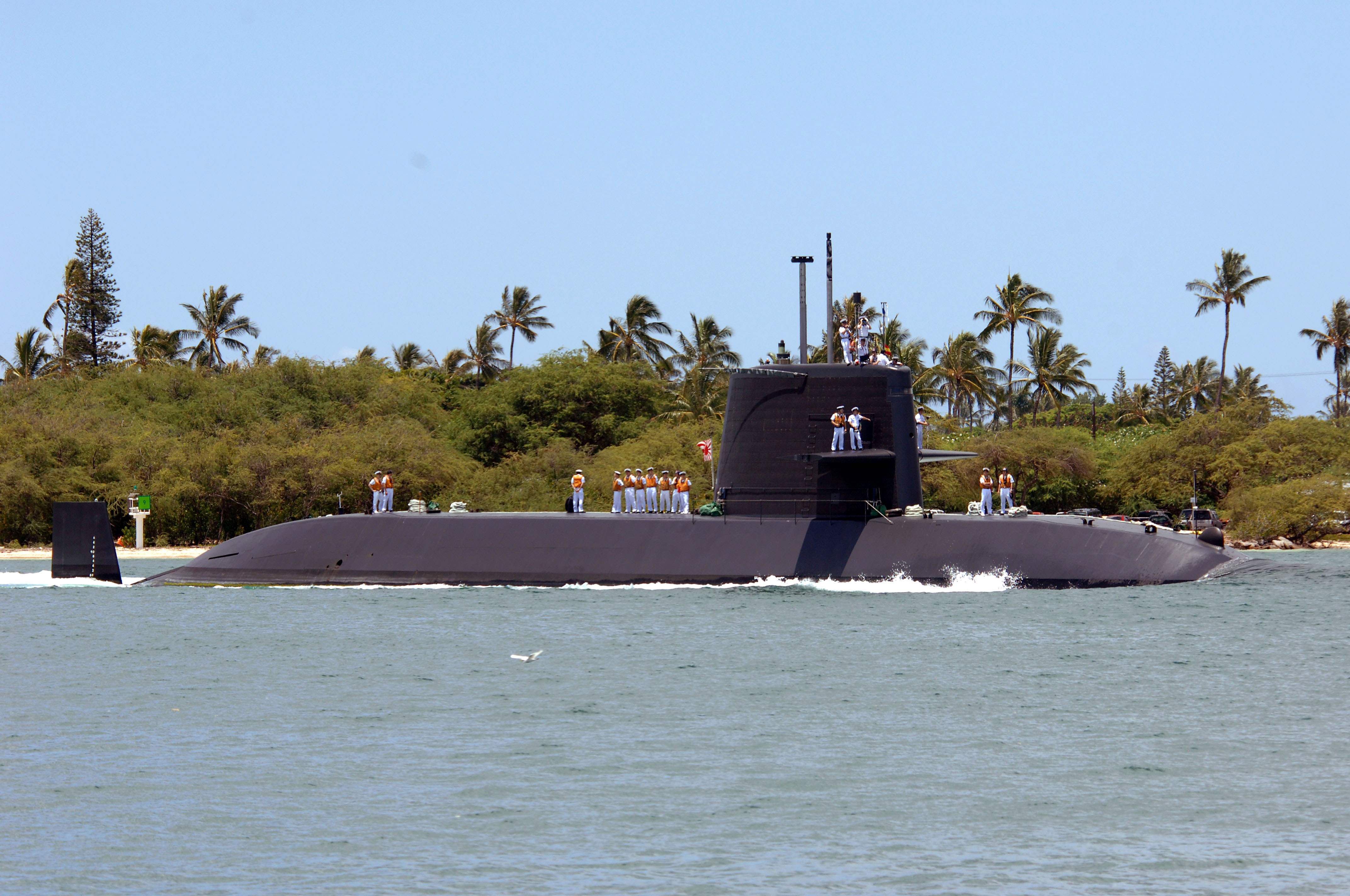 The Japanese Maritime Self Defense Force submarine JS Narushio (SS-595) pulls into Pearl harbor for a scheduled port call before starting Rim of the Pacific (RIMPAC) 2008.